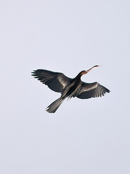 Darter Anhinga melanogaster at Hodal in Faridabad District of Haryana, India.